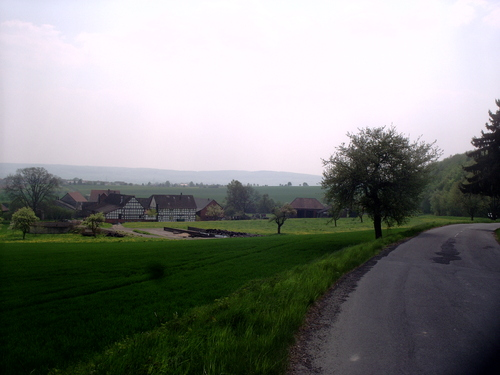 Hof Capelle near Marburg/Germany, seen from the north